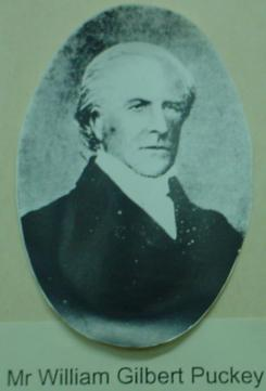 This is a resized image of the photo williampuckey.jpg. It was taken by me at the Far North Museum in March, 2007.